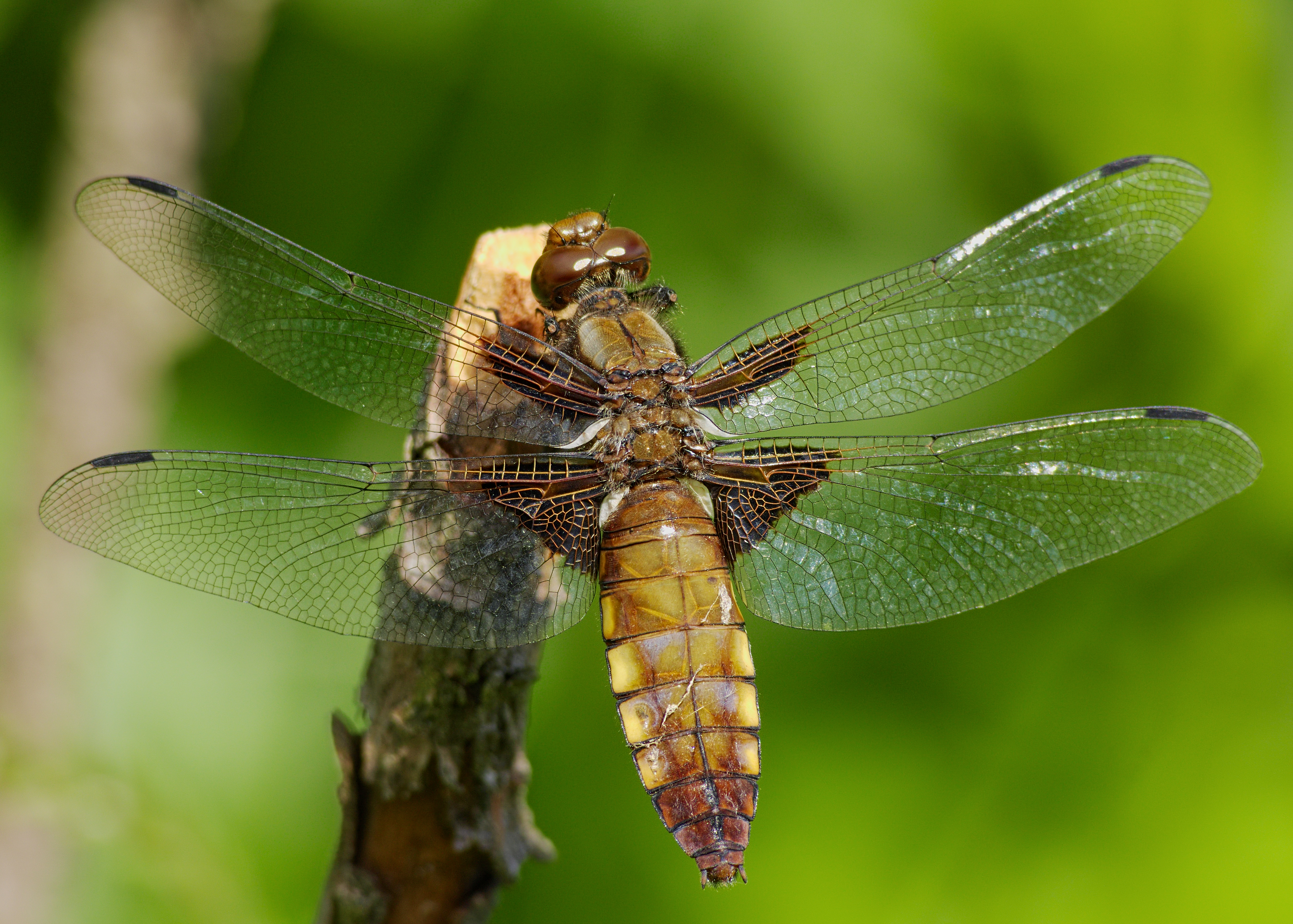 Broad-bodied chaser - Libellula depressa or Platetrum depressum, female. Taken by the Godendorfer See in Godendorf, Mecklenburg-Western Pomerania, Germany.